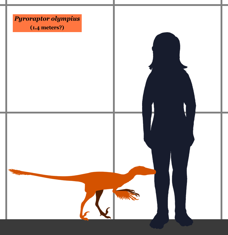 Size comparison between the dinosaur Pyroraptor olympius and a human. Size of Pyroraptor is based on the holotype fossil.